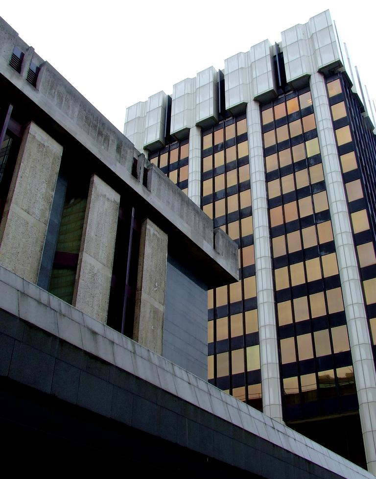 Bank Chambers, Manchester, England, UK